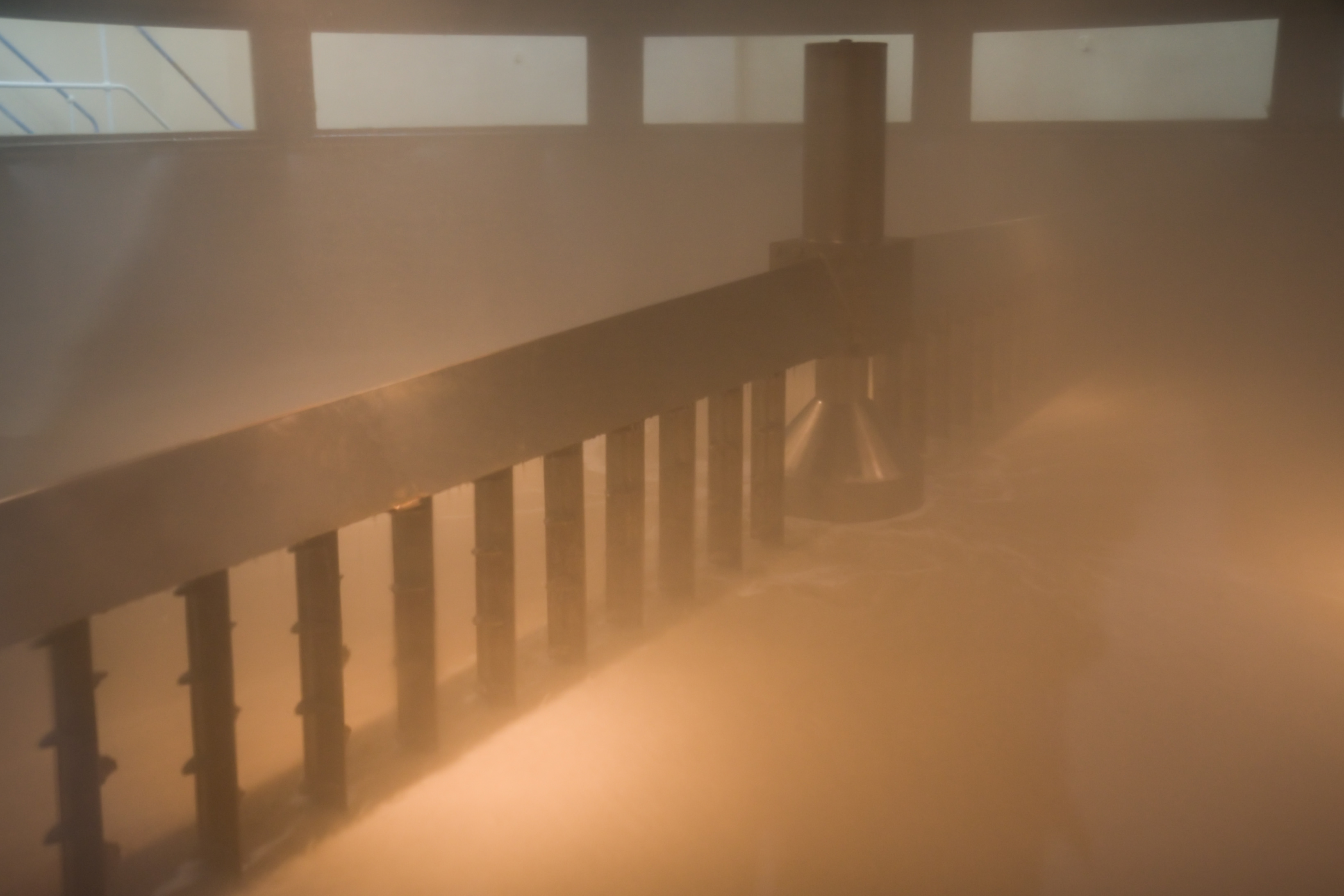 The mash tun of Glenfiddich distillery, Dufftown, Moray, Scotland Milled malt gets heated up, sprayed water vapour heats from top